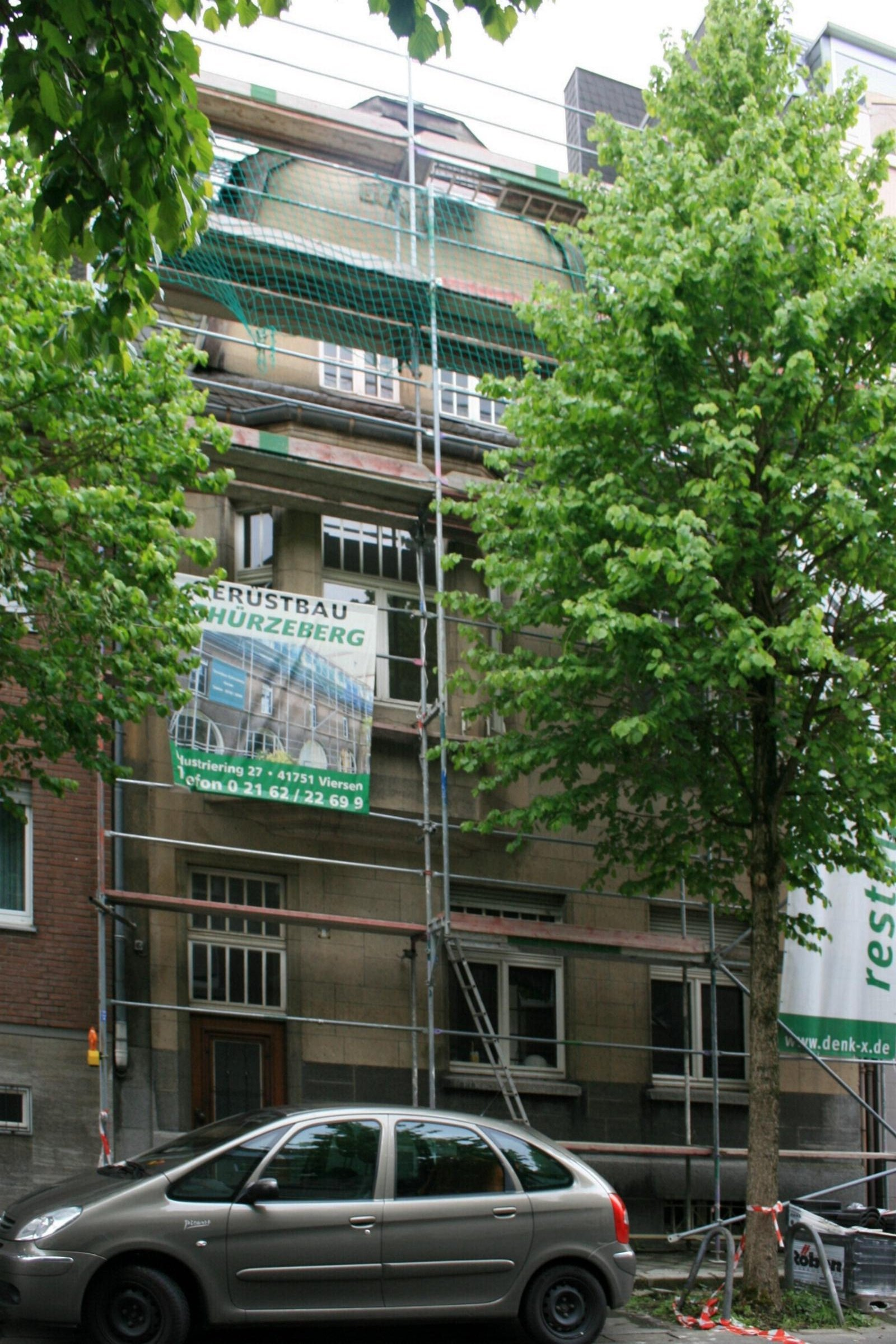 Cultural heritage monument No. B 151 in Mönchengladbach